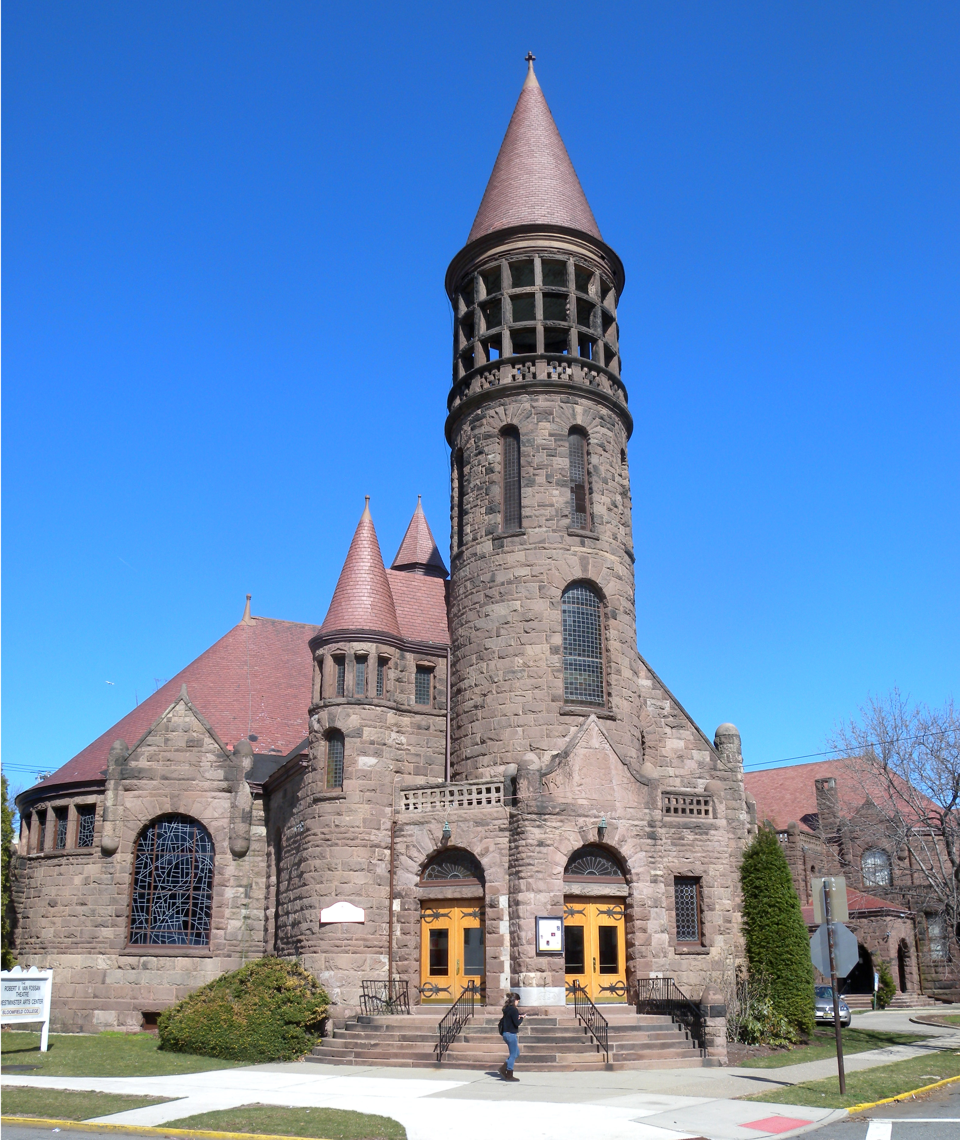 Looking northeast at Westminster Art Center, former Westminster Presbyterian Church, on a sunny early afternoon.